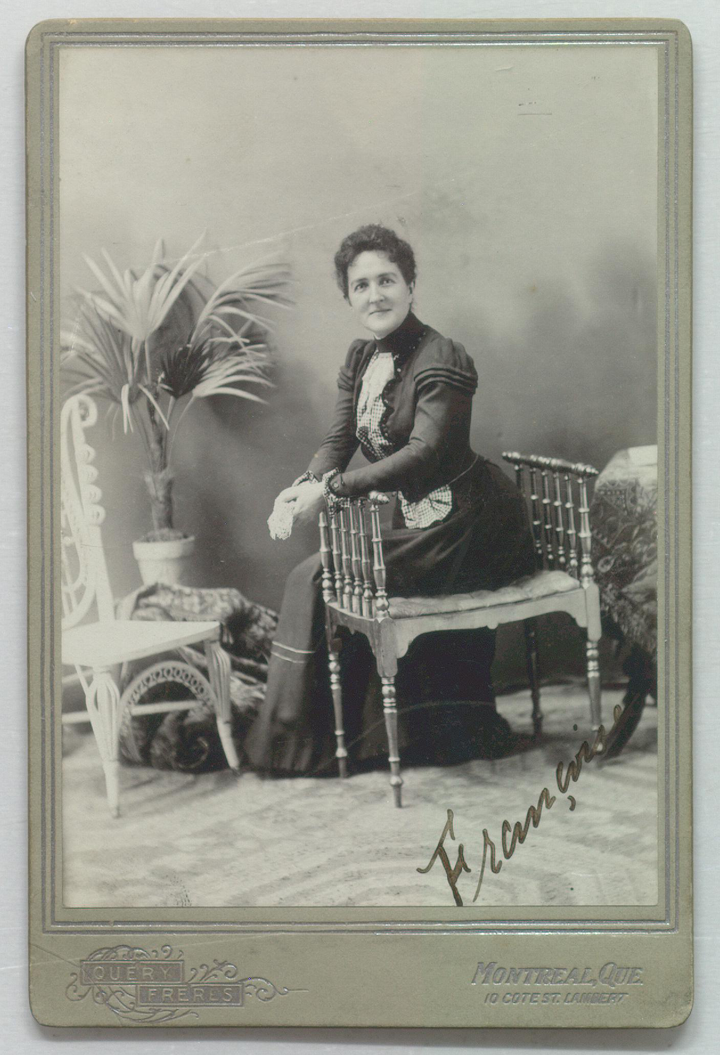 Record no: Ms Coll 450 Box 1/folder 23 Title: Canadian Women Authors Creator: Query Freres, Montreal, QC Date: [c. 1903] Image description: Image depicts Miss Robertine Barry "Francoise" (1863-1910). She was an active journalist who wrote for La Patrie and founded Le Journal de Françoise in 1902. Extent: 167 x 108 mm Format: Photograph Rights info: No known restrictions on access Repository: Thomas Fisher Rare Book Library, University of Toronto, Toronto, Ontario Canada, M5S 1A5